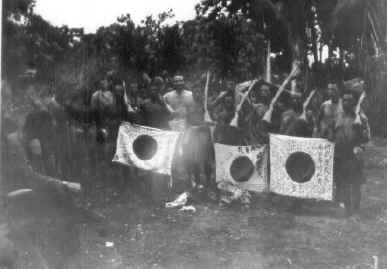 Native islanders display captured Imperial Japanese Army weapons and flags on Guadalcanal in November 1942